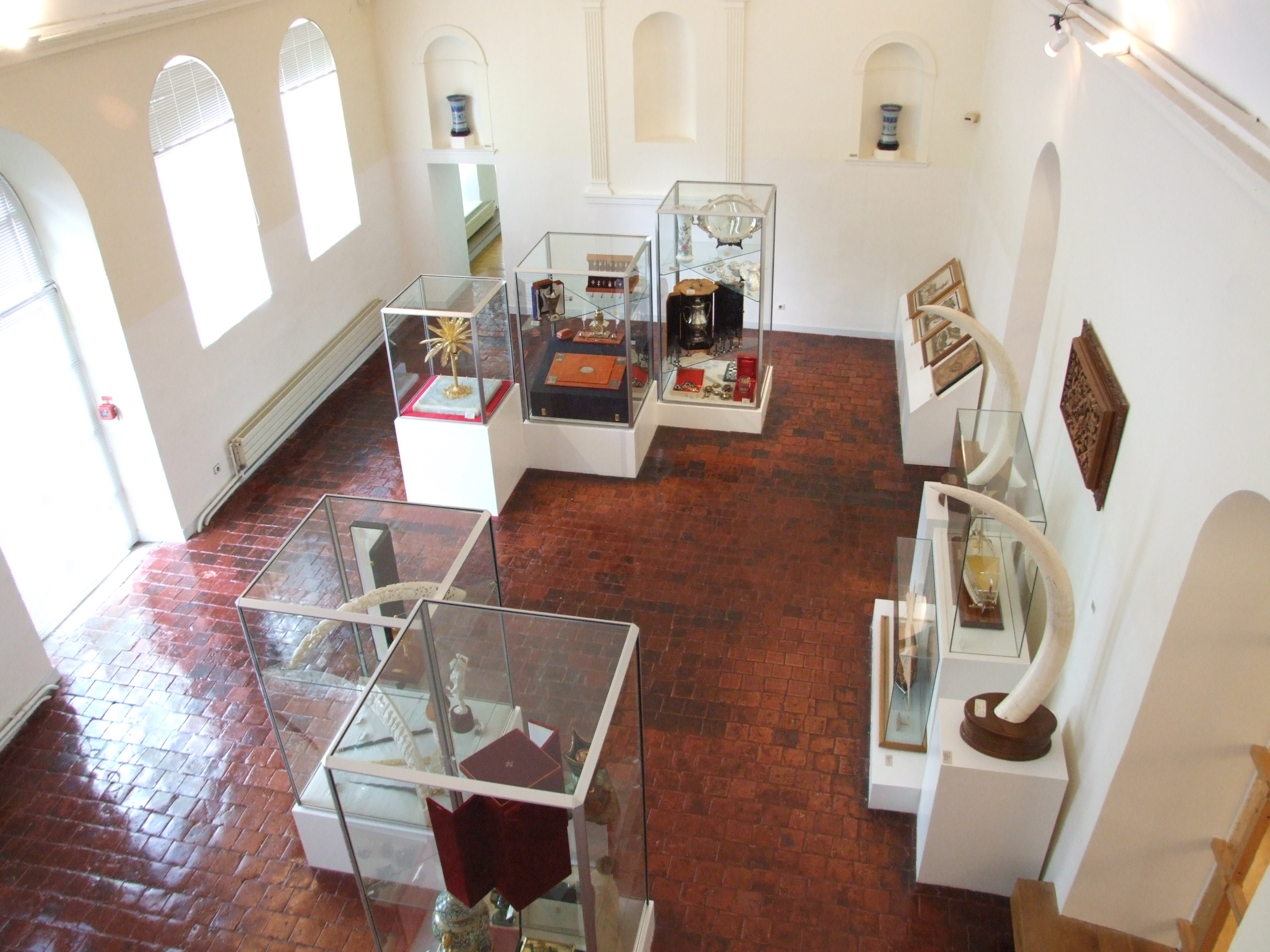 Château-Chinon (Ville), Nievre, Burgundy, FRANCE